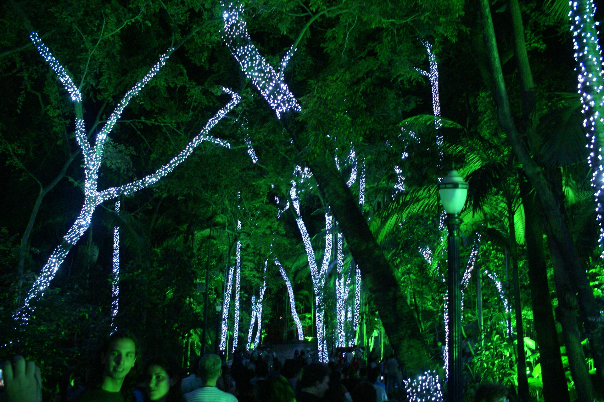 Trianon Park in Christmas, São Paulo City, Brazil.